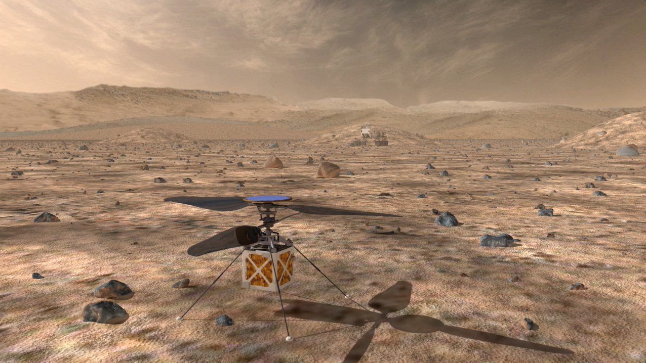 01.22.2015 Helicopter Could be 'Scout' for Mars Rovers A proposed helicopter could triple the distances that Mars rovers can drive in a Martian day and help pinpoint interesting targets for study.